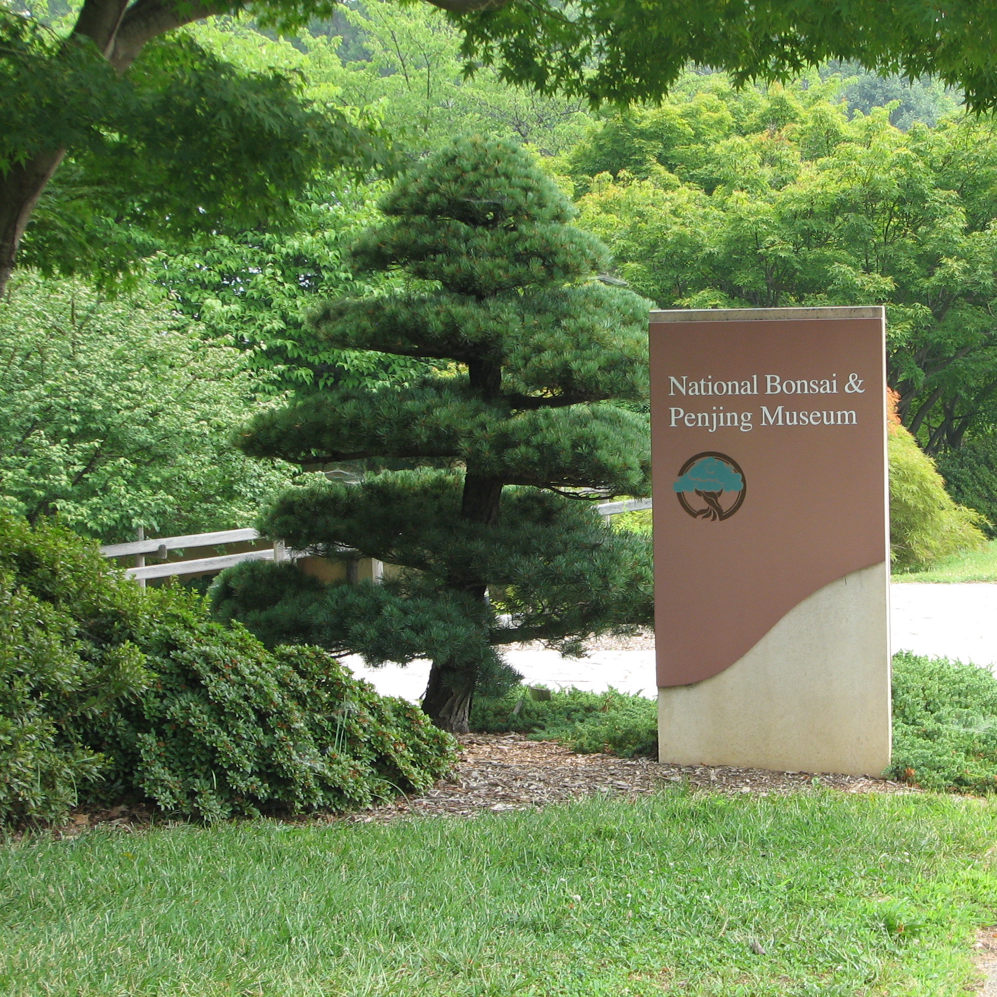 Entry sign for the National Bonsai & Penjing Museum at the United States National Arboretum